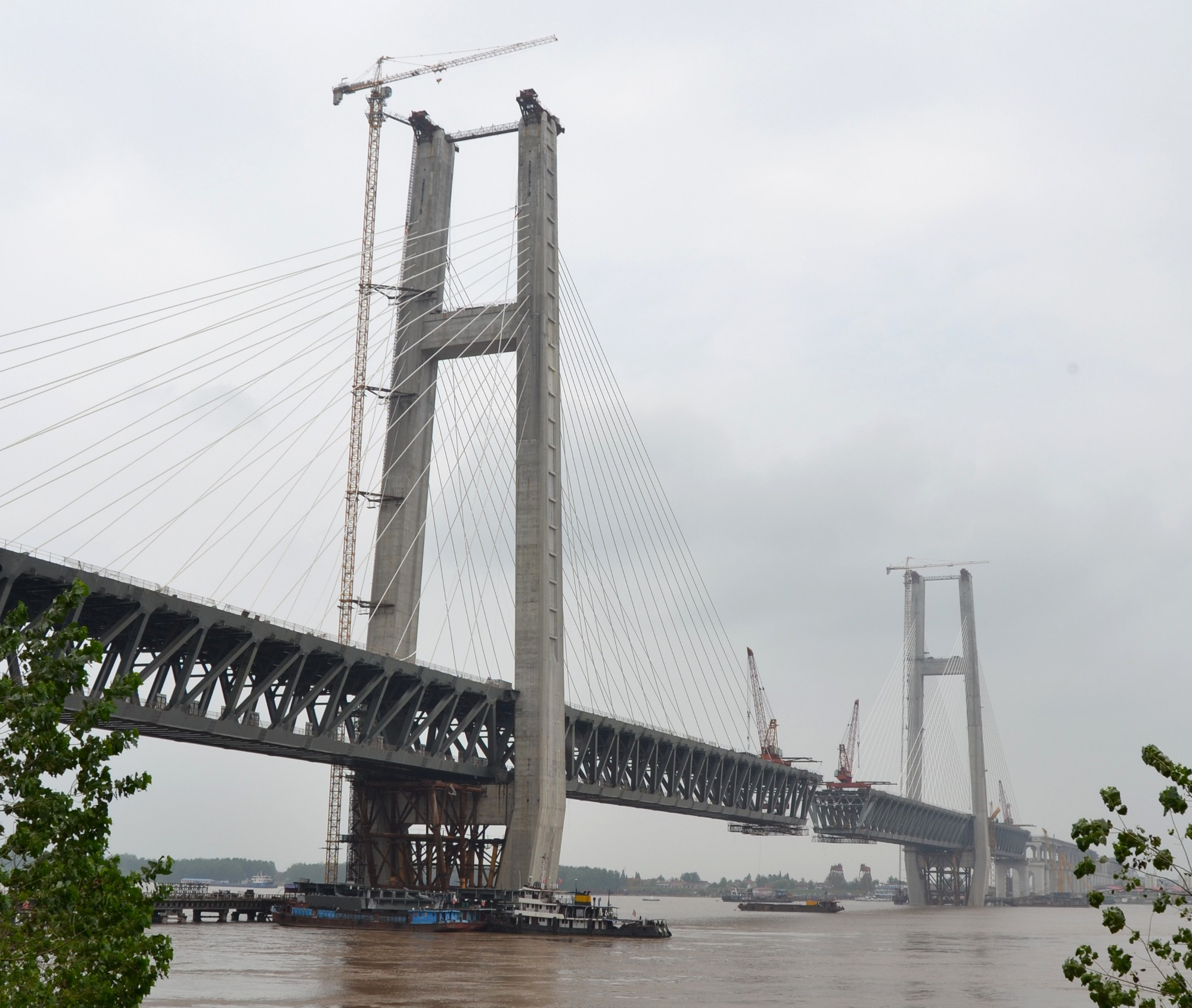 The Huanggang Yangtze River Bridge in Anqing, China